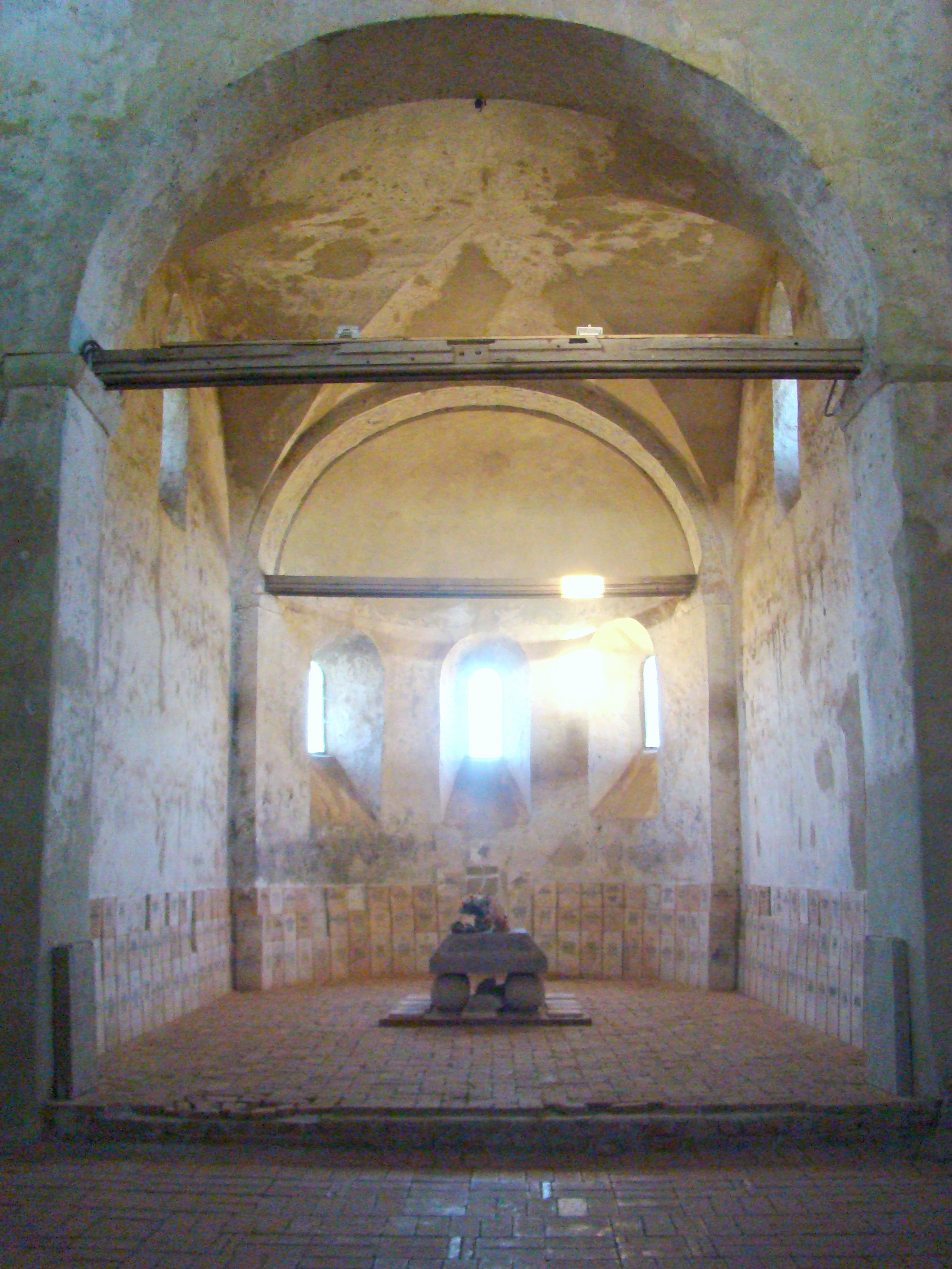 The Ensemble of The ”Saint Michael” Lutheran church in CisnădioaraRomână: Ansamblul bisericii evanghelice „Sf.Mihail” din Cisnădioara